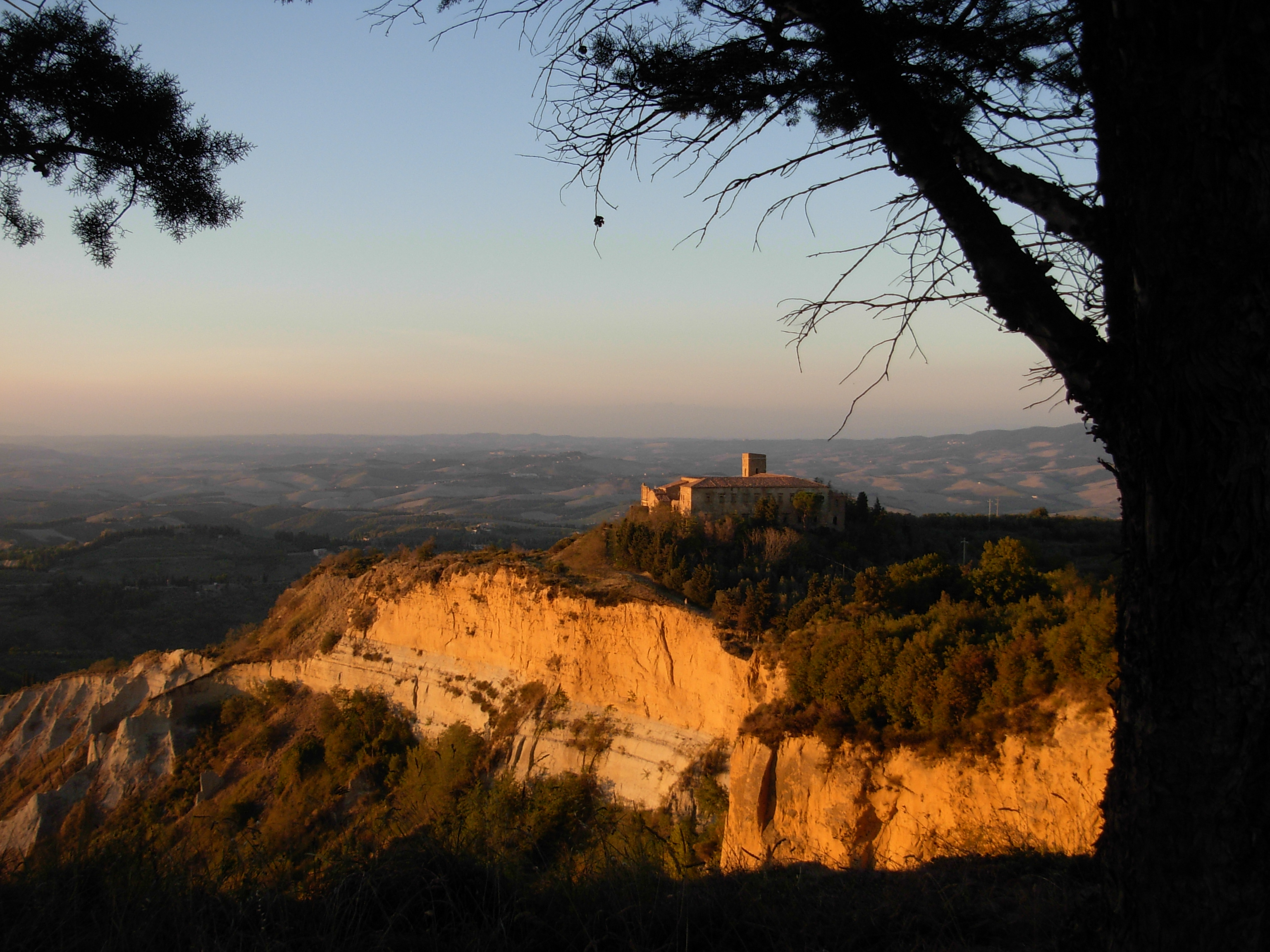 Le Balze, Volterra (Pisa, Tuscany); Abbazia dei Santi Giusto e Clemente